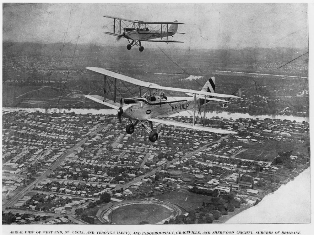 Aerial view of suburbs of Brisbane including West End, St. Lucia , Yeronga, Indooroopilly, Graceville and Sherwood, 1933.